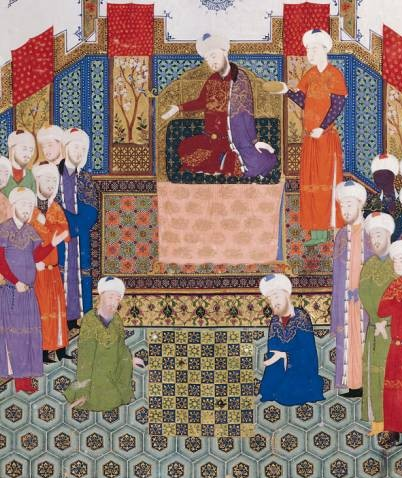 Bozorgmehr, King Anushirvan's grand vizier, who has discovered the rules of the game, challenges the Indian envoy to a game of chess. From the “Bayasanghori Shâhnâmeh” — made in 1430 for Prince Bayasanghor (1399-1433), the grandson of the legendary Central Asian leader Timur (1336-1405).